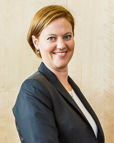 HE Marit Berger Røsland, State Secretary, Ministry of Foreign Affairs of the Kingdom of Norway, is paying a courtesy visit to the Executive Secretary of the Comprehensive Nuclear-Test-Ban Treaty Organization, on Monday, 26 September 2016.